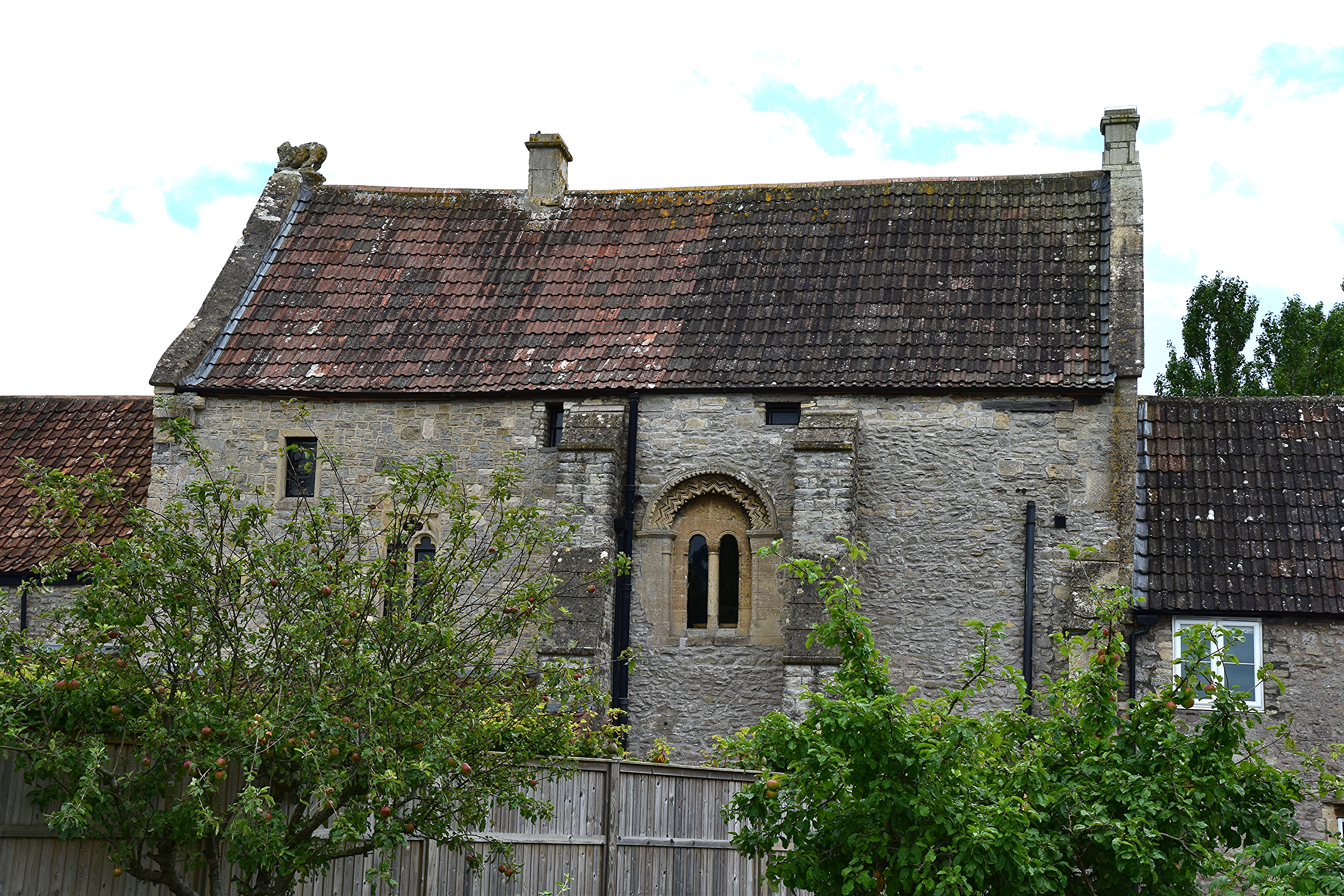 Saltford Manor, 14 August 2016. This is the oldest continuously occupied Manor House (12th Century Norman - possibly 1148) in England. It was remodelled in the 17th Century.